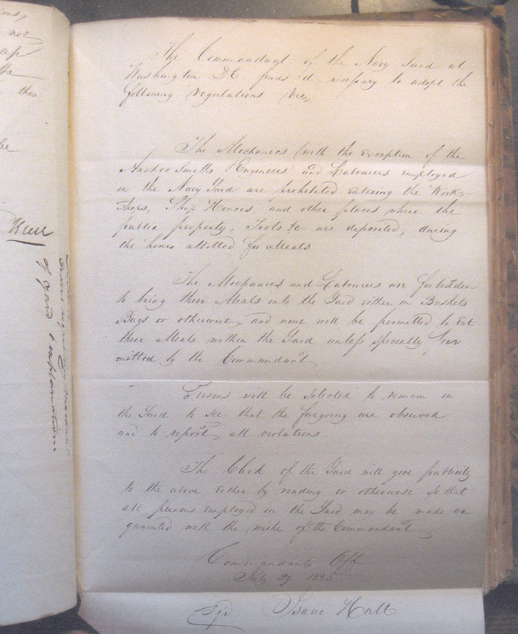 Commodore Isaac Hull's regulation re meals and access for workers at the Washington Navy Yard during lunch time was set off August 1835 labor strike. This was the first labor strike of federal employees